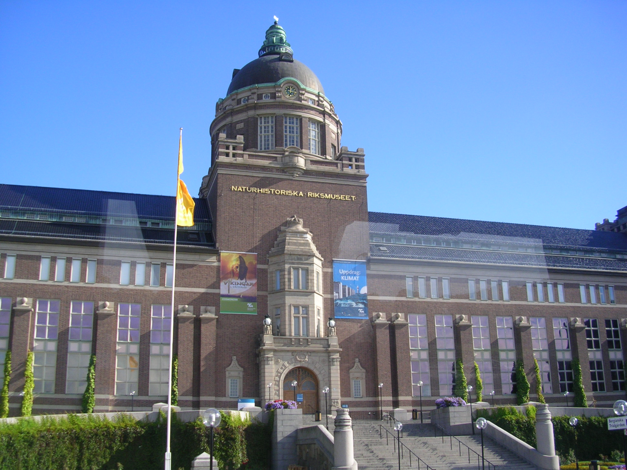 Swedish Museum of Natural History in Stockholm, Sweden